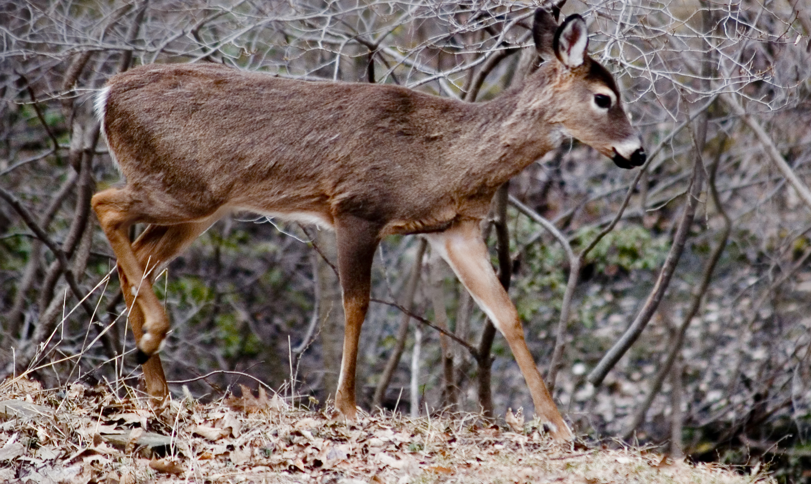 I created this image and allow it to be edited and used for non-commercial purposes. Image details Camera- Olympus E-500 Photoshop work- Converted RAW (ORF) into a JPEG, than I adjusted some background blur.